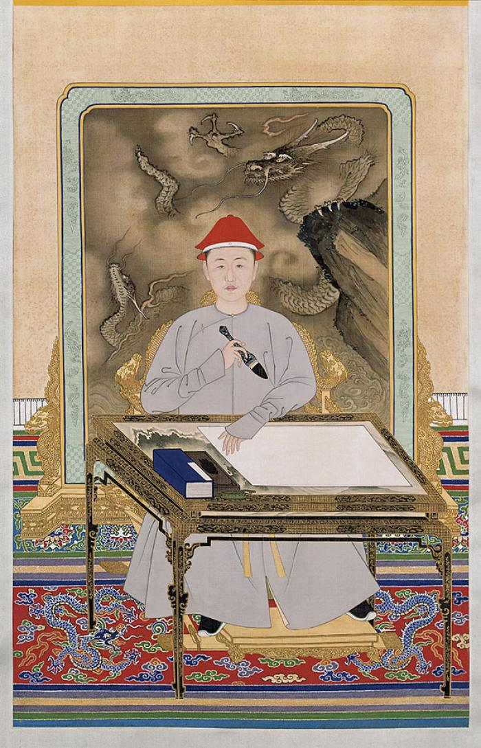 Portrait of the Kangxi Emperor in Informal Dress Holding a Brush